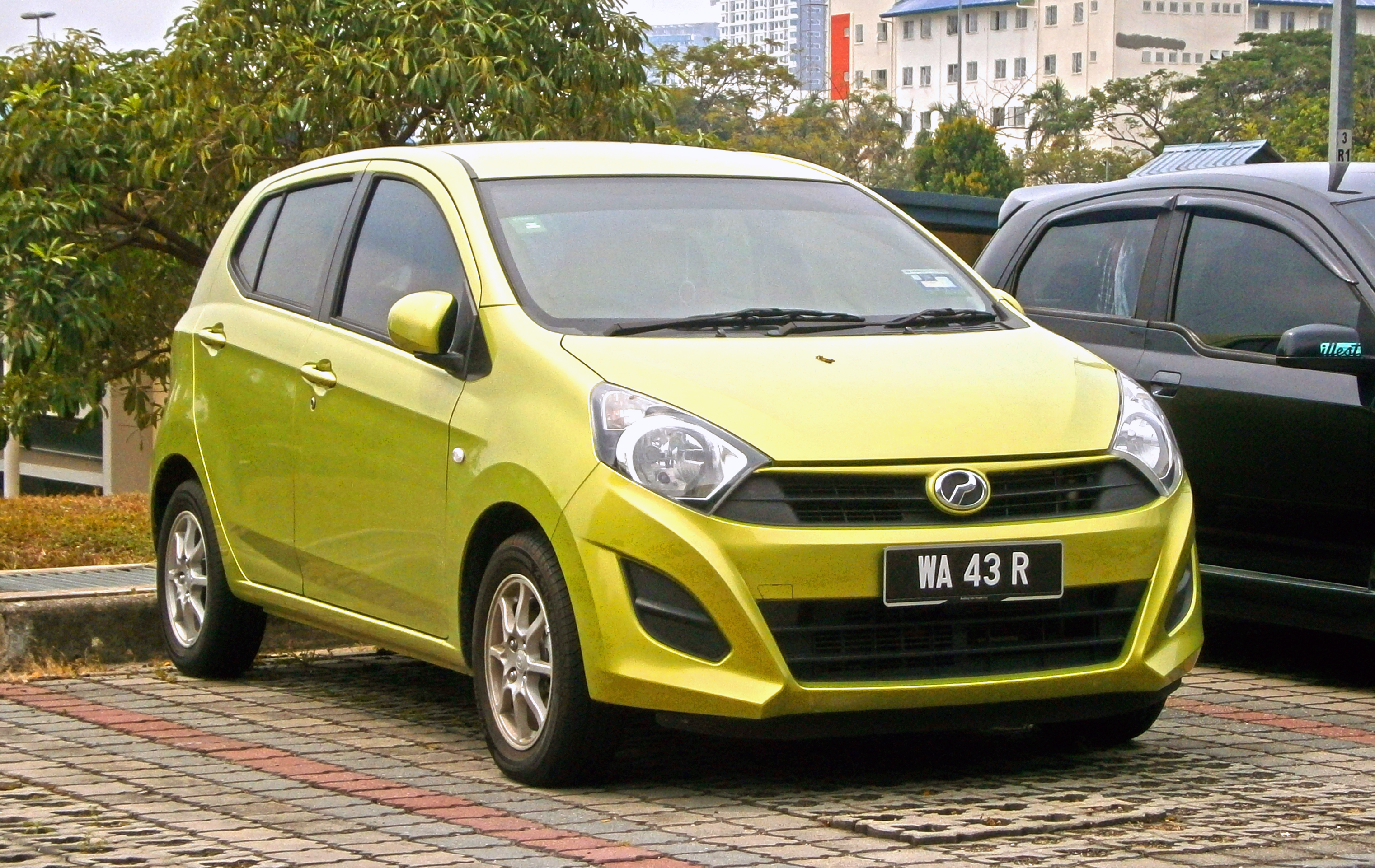 2014 Perodua Axia Standard G 1.0 5-door hatchback